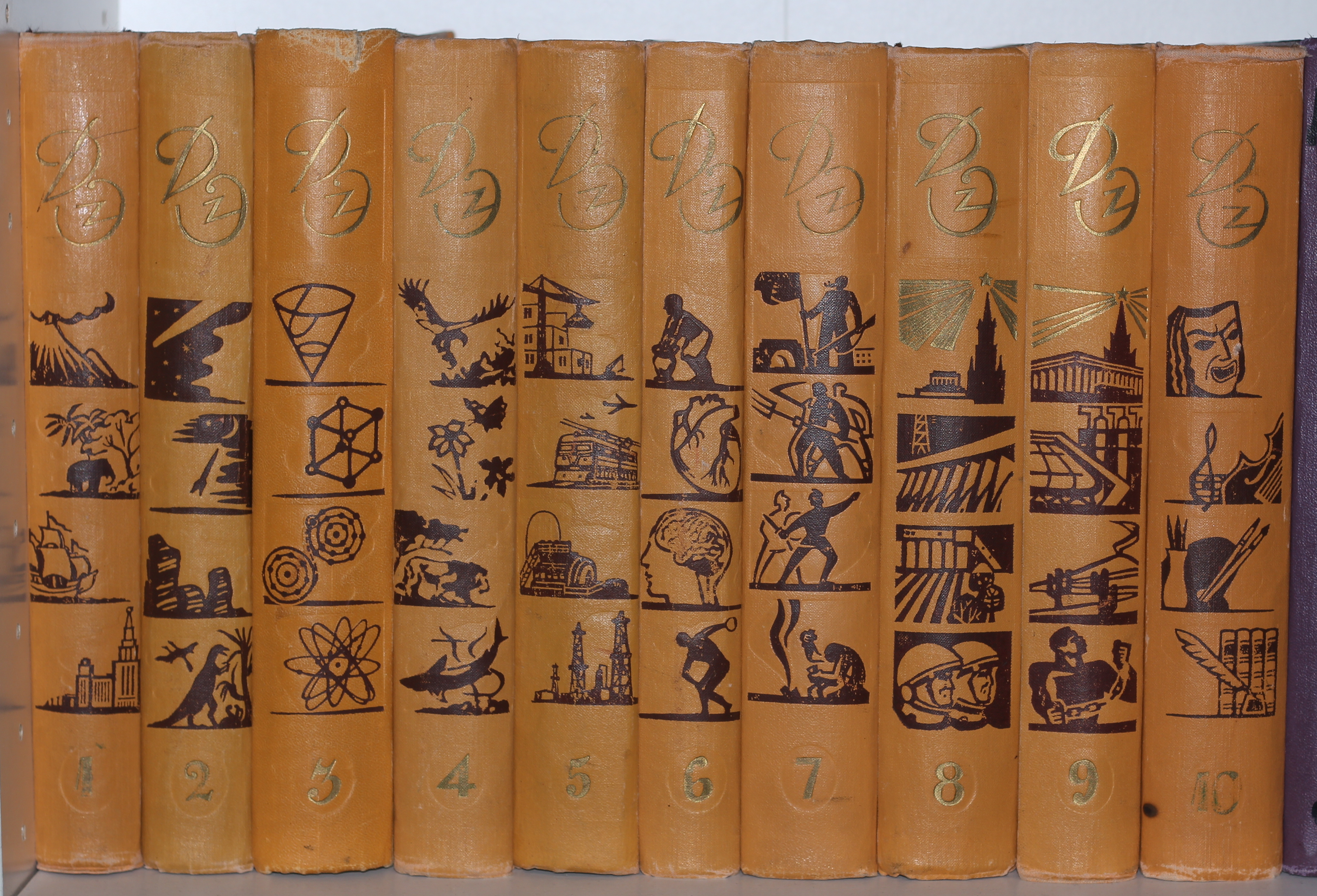 Children's Encyclopedia 1959 year. Encyclopedias of the Soviet Union